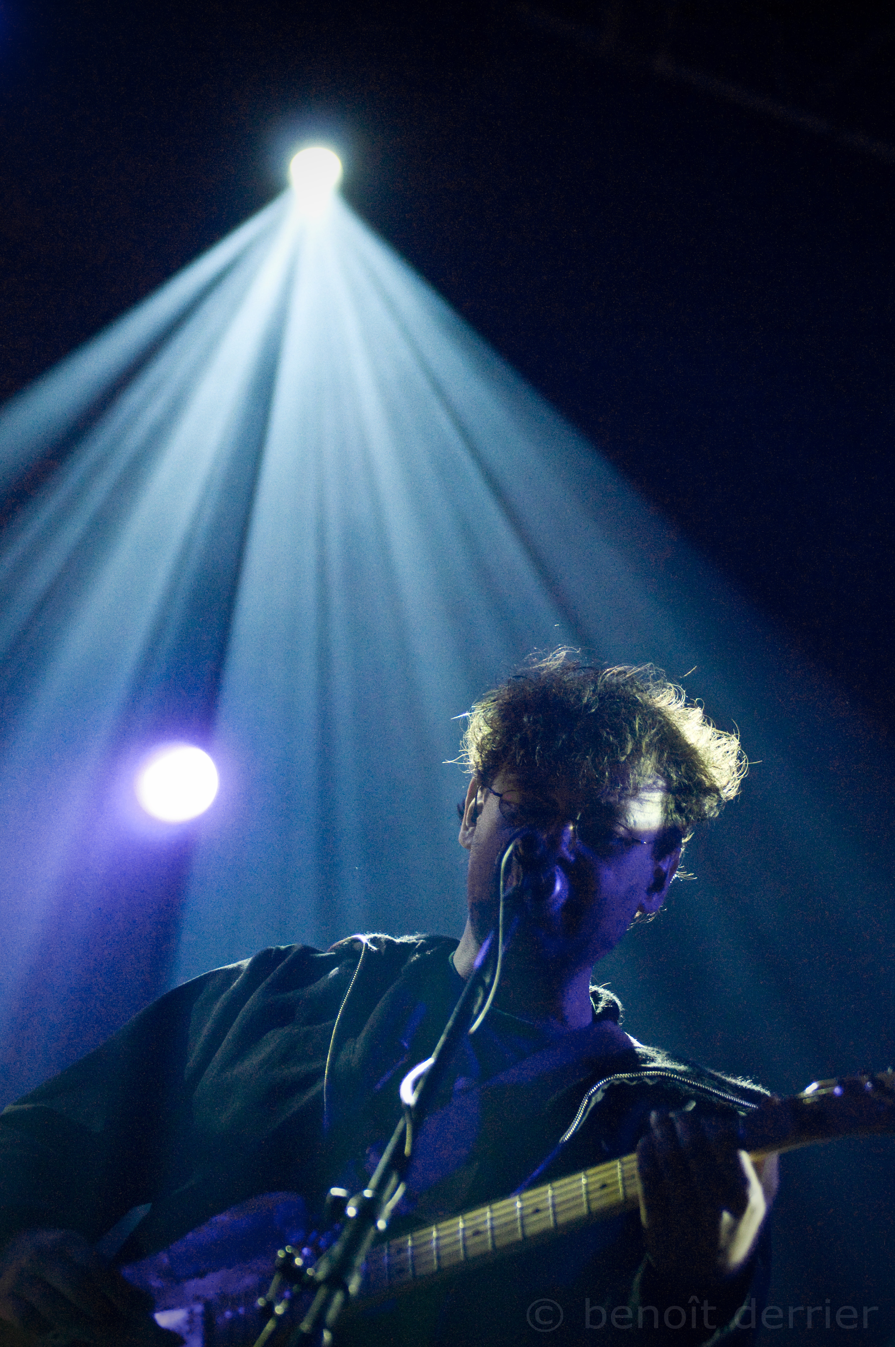 The Notwist @ Marsatac 2008